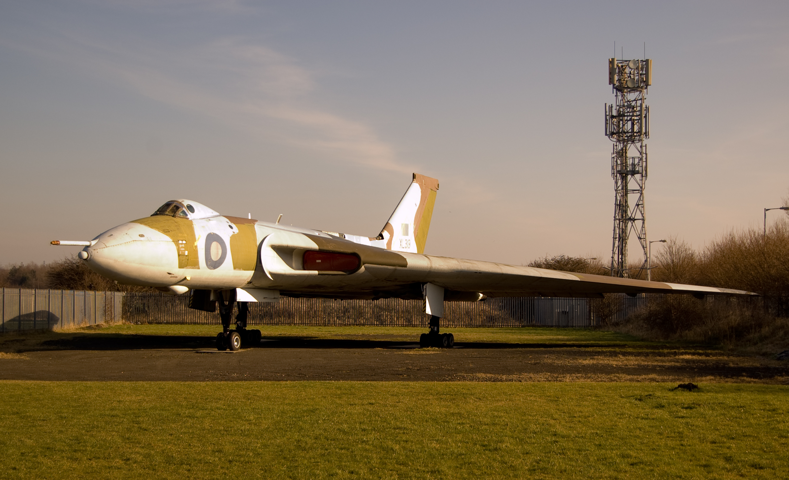 Cropped version of Avro Vulcan XL319, North East Aircraft Museum, Sunderland.